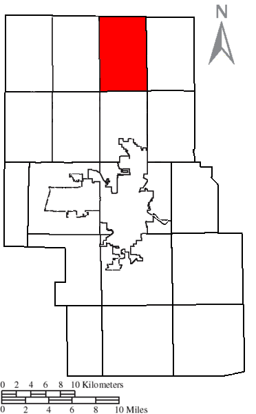 Made by the US Census and altered by myself to highlight the township